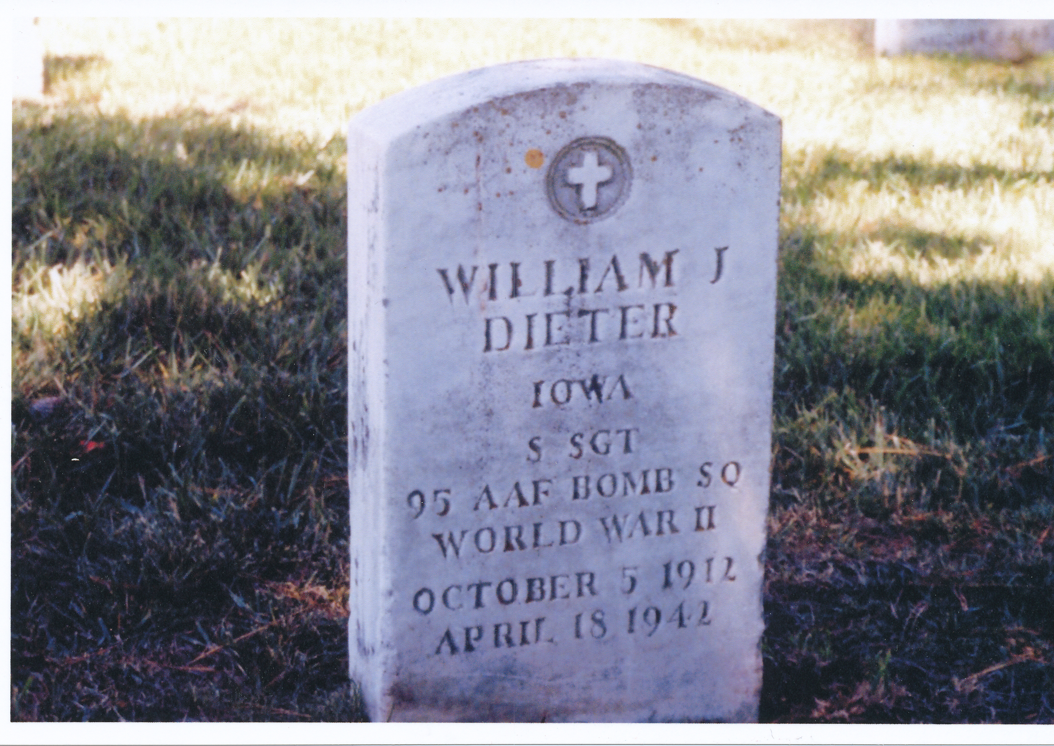 This is the tombstone for William John "Billy Jack" Dieter at Golden Gate National Cemetery. Photo taken August 2007.